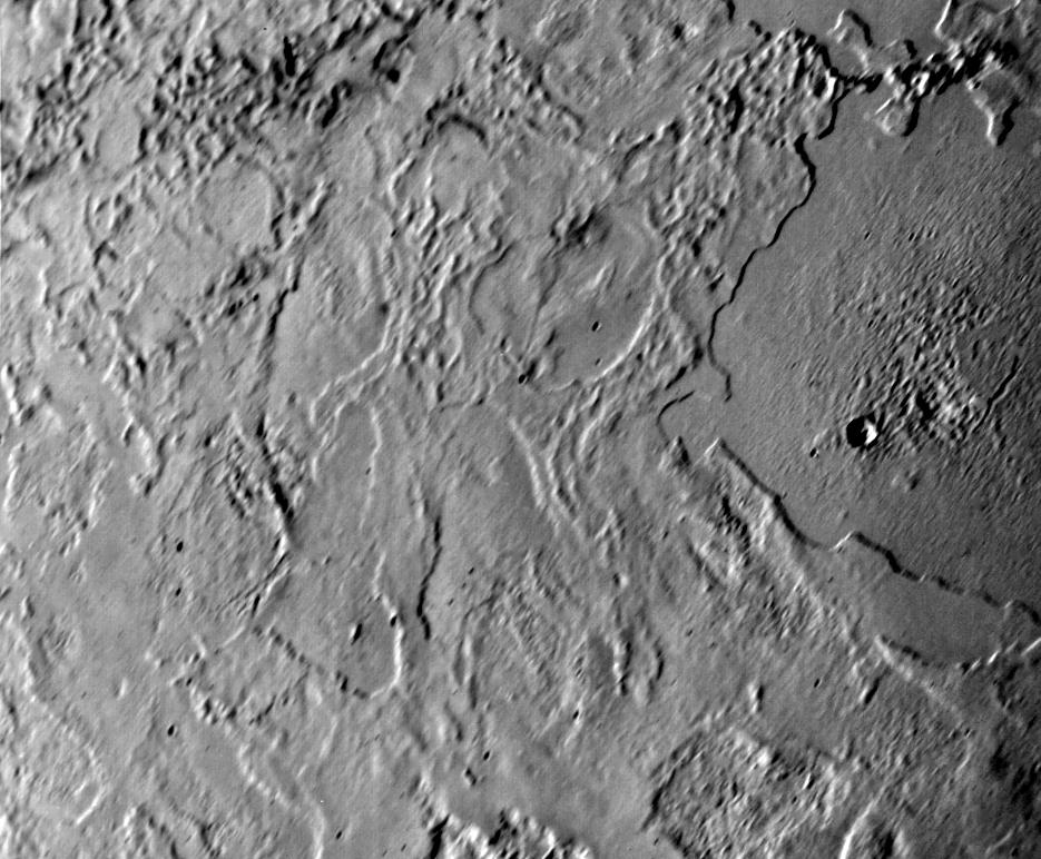 Voyager 2 took this picture of Neptune's largest satellite,Triton, from less than 80,000 km (50,000 miles). The image shows an area in Triton's northern hemisphere. The Sun is just above the horizon, so features cast shadows that accentuate height differences. The large, smooth area in the right-hand side of the image shows a single, fresh, impact crater. Otherwise there is no evidence of impacts such as those that have pocked the faces of most of the satellites Voyager 2 has visited. Many low cliffs in the area, bright where they face the Sun, and when they face away from it, suggest and intricate history for Triton. The cliffs might be due either to melting of surface materials or, possibly, caused by unusual fluid materials that flowed sometime in Triton's past.